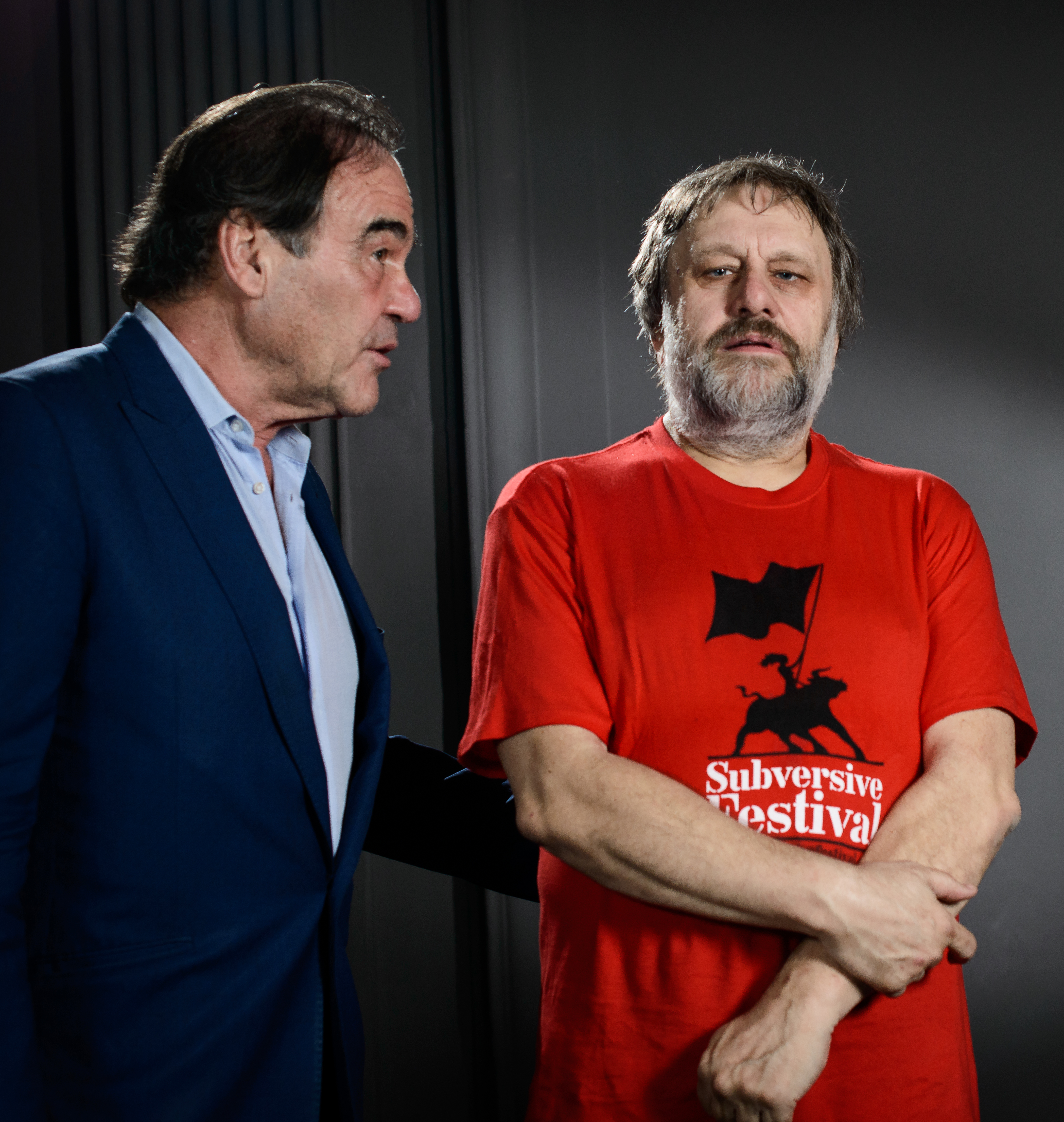 Alexis Tsipras, Oliver Stone, Slavoj Zizek in Zagreb, copyright - Robert Crc